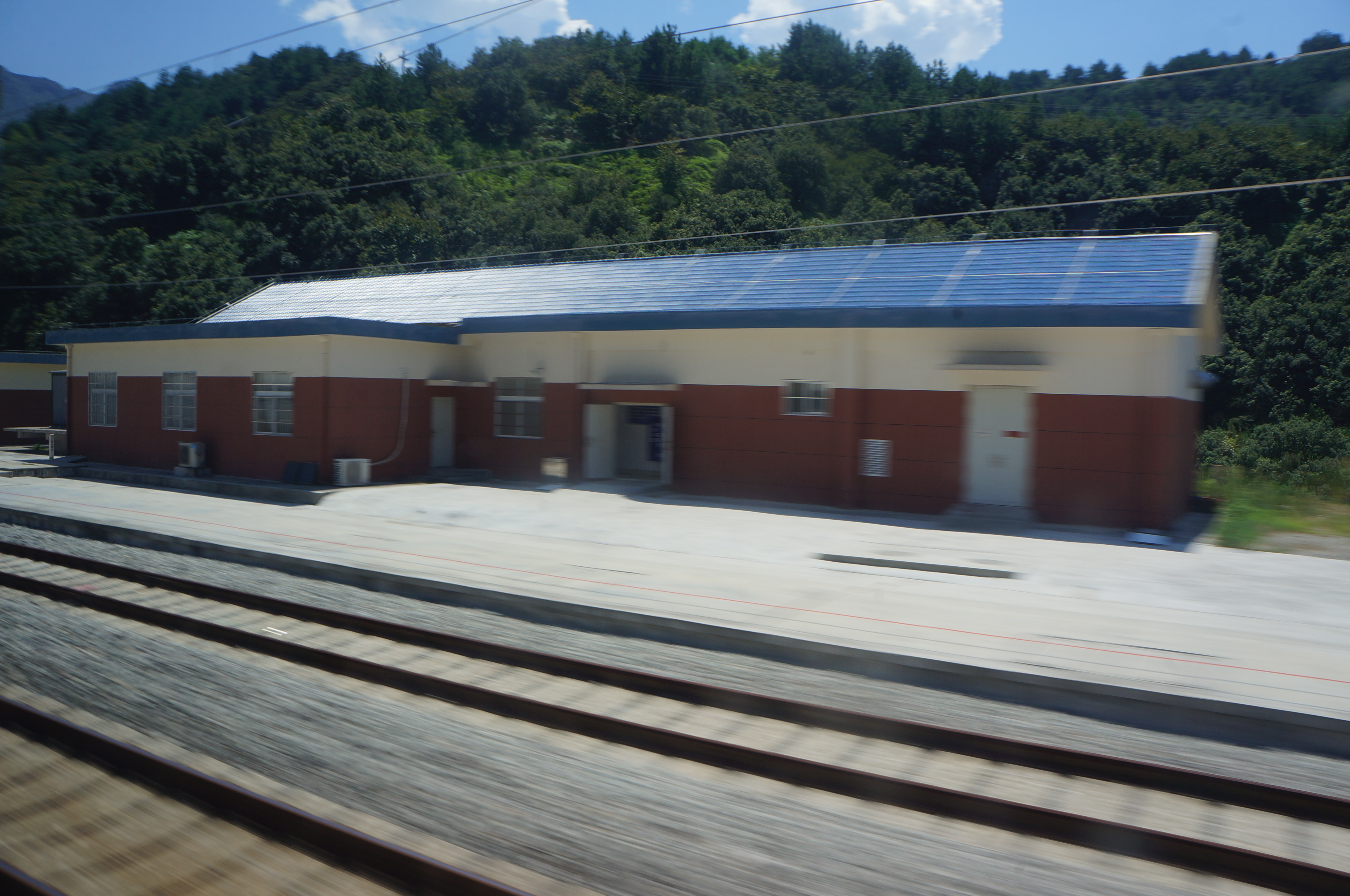 201708 Conductor of Chenzhuan Station